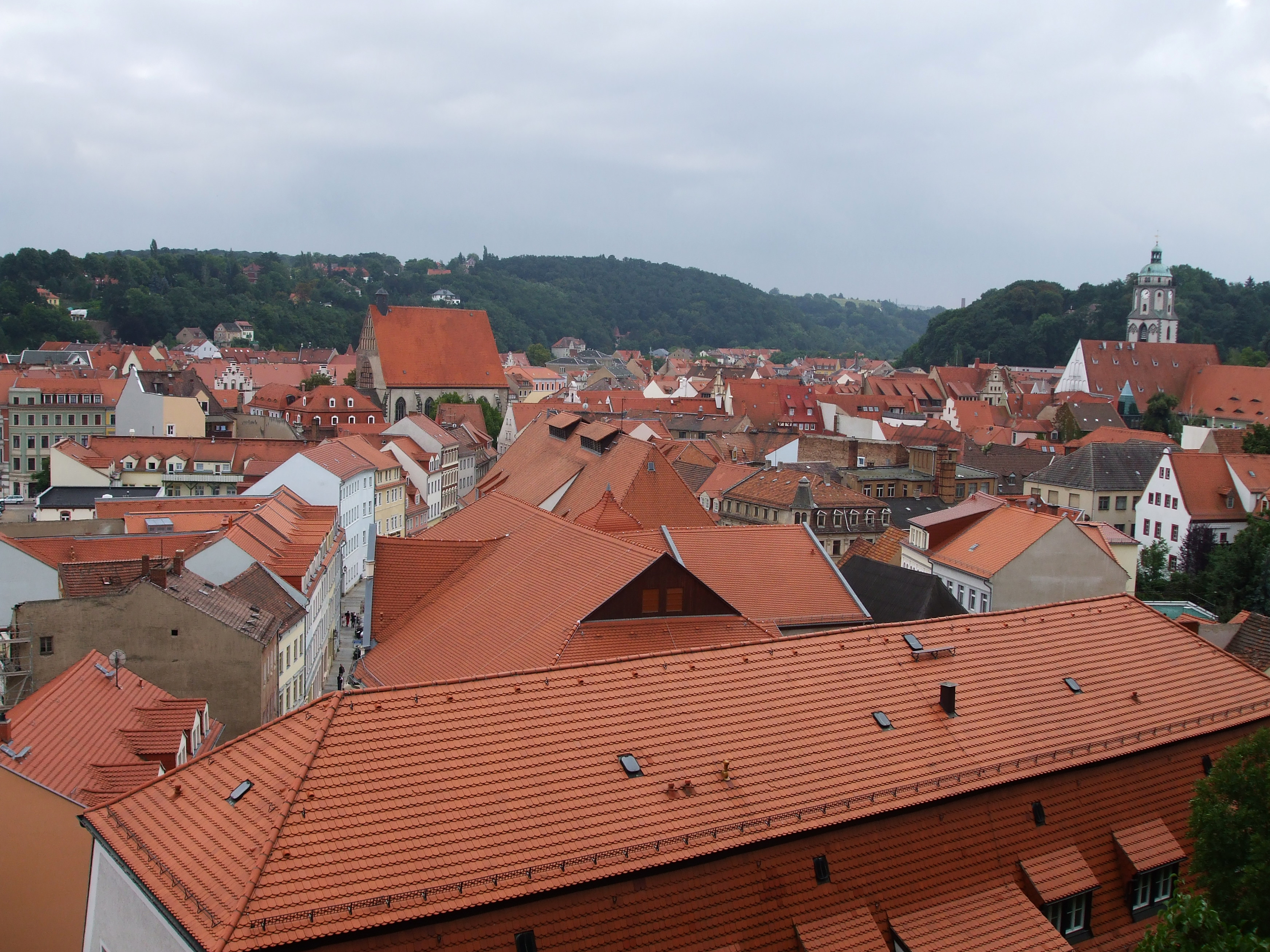 view on Meißen